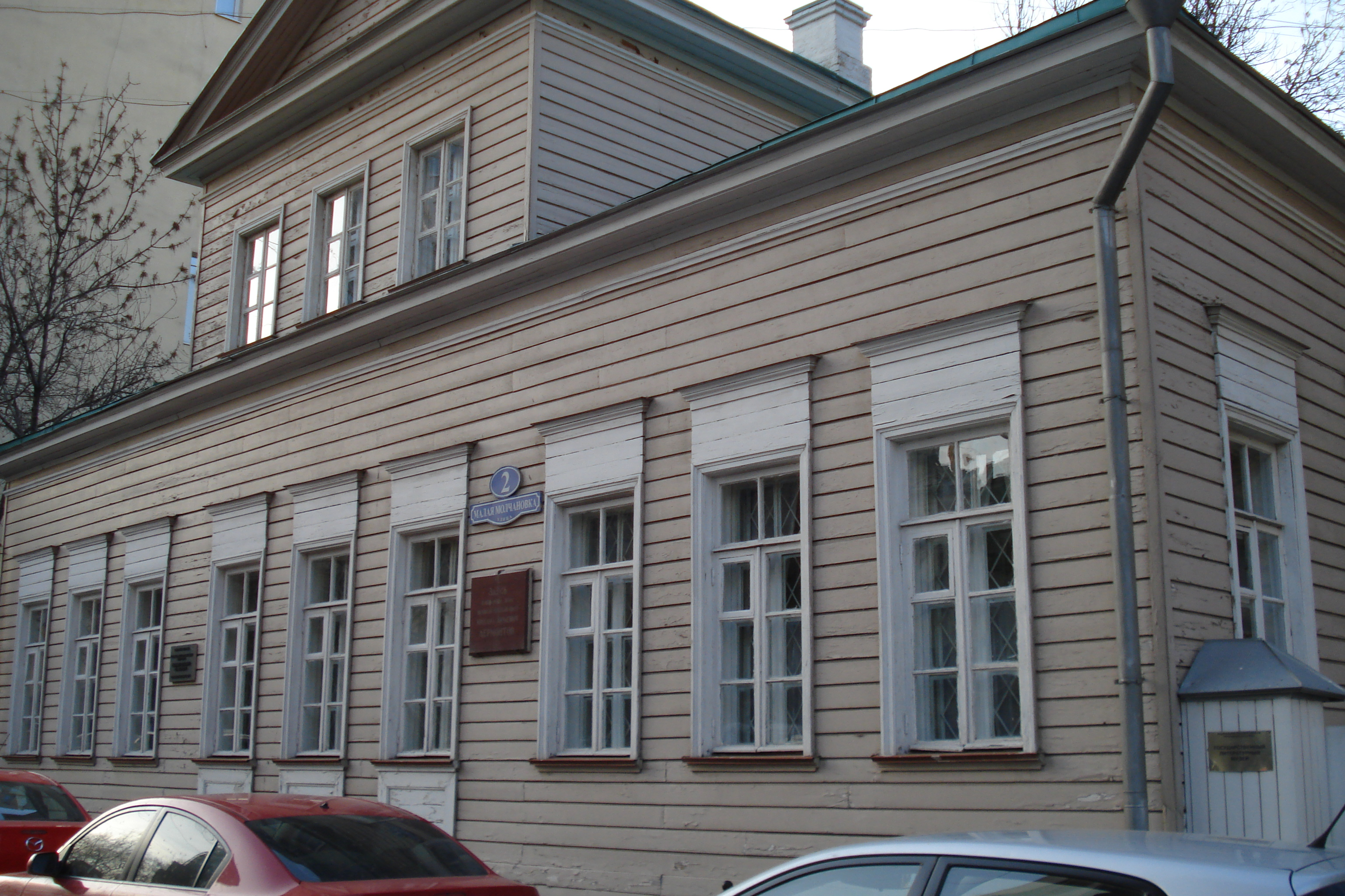 Lermontov House-Museum in Moscow (Malaya Molchanovka 2) in the wooden house, where the famous Russian poet Mikhail Lermontov lived between 1829 and 1832. Museum was opened in 1981 or 1982.